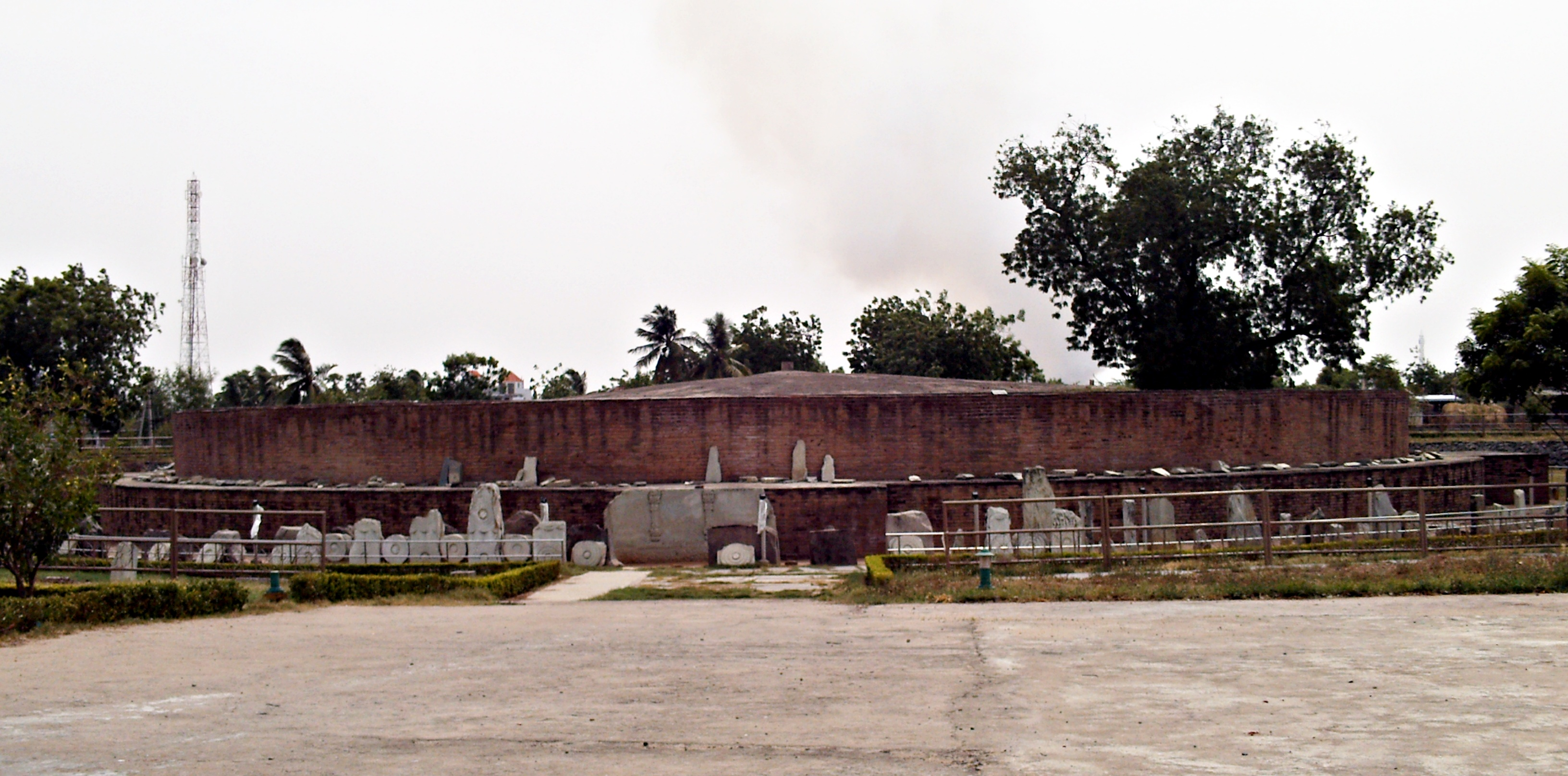 Remains of grand Amaravathi Sthupa